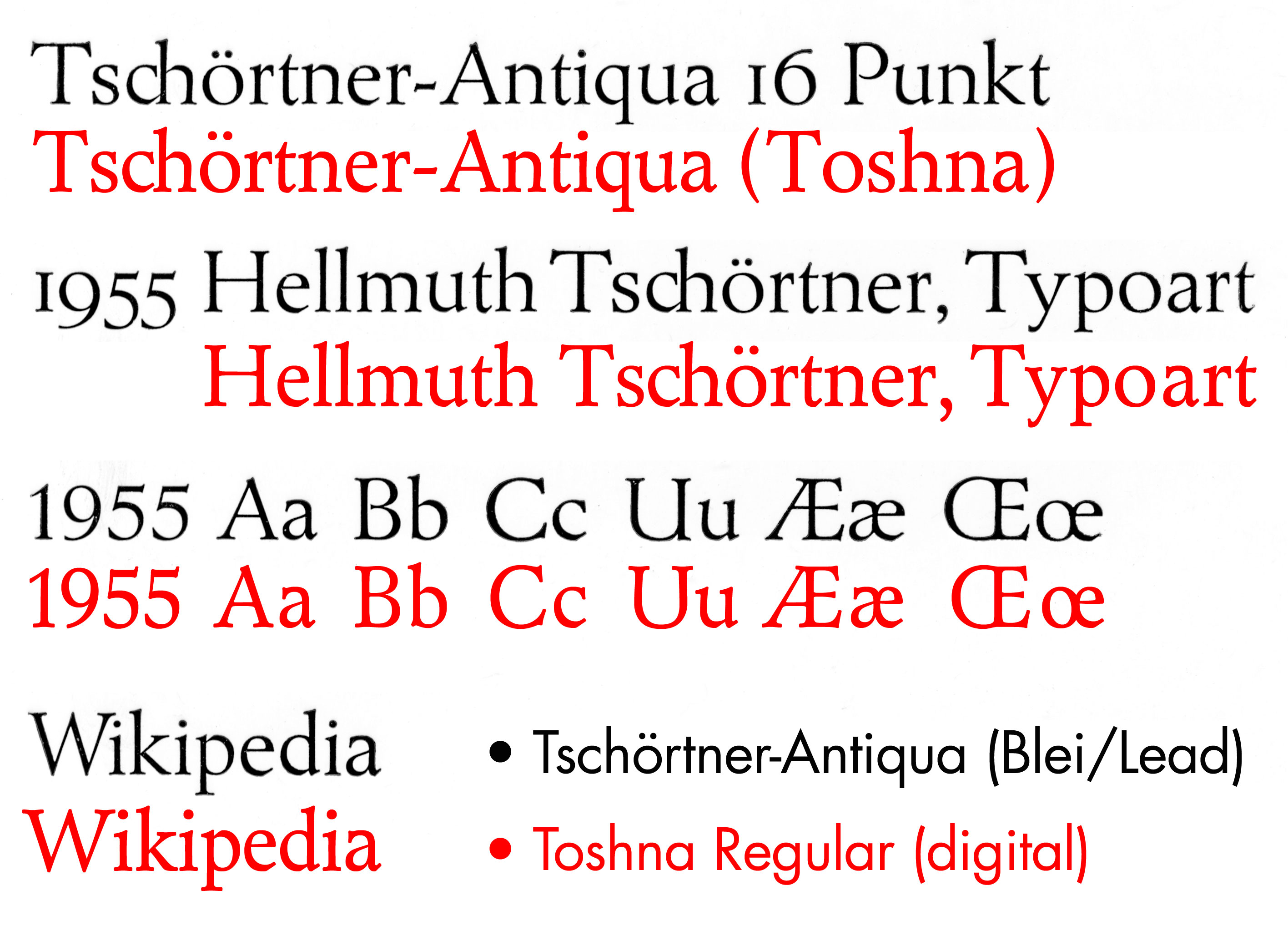 Comparison of Tschörtner and Toshna shows big differences.